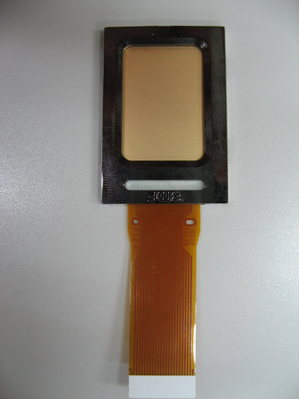 Resistive fingerprint sensor